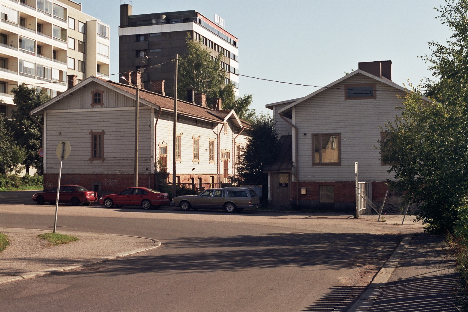 Two wooden buildings near the railway station of Tampere in Finland. Built in the early 1900s, the buildings were obviously once used by the railway personnel. As of 2009, they are under the threat of demolition.